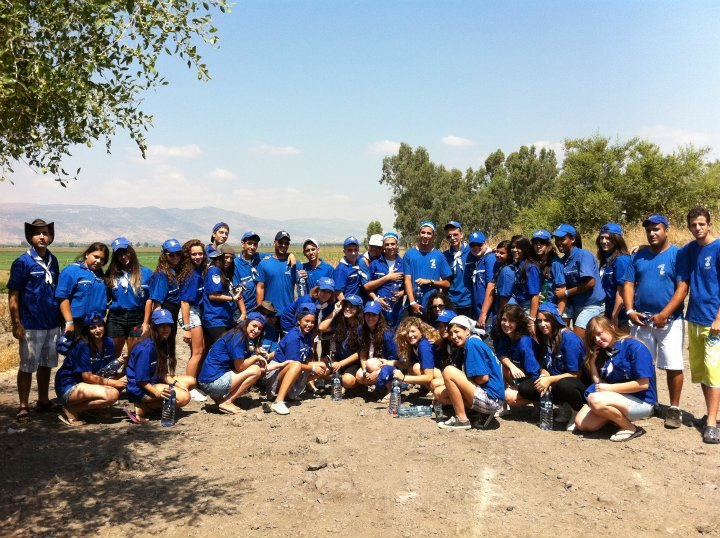 noar leumi tyul